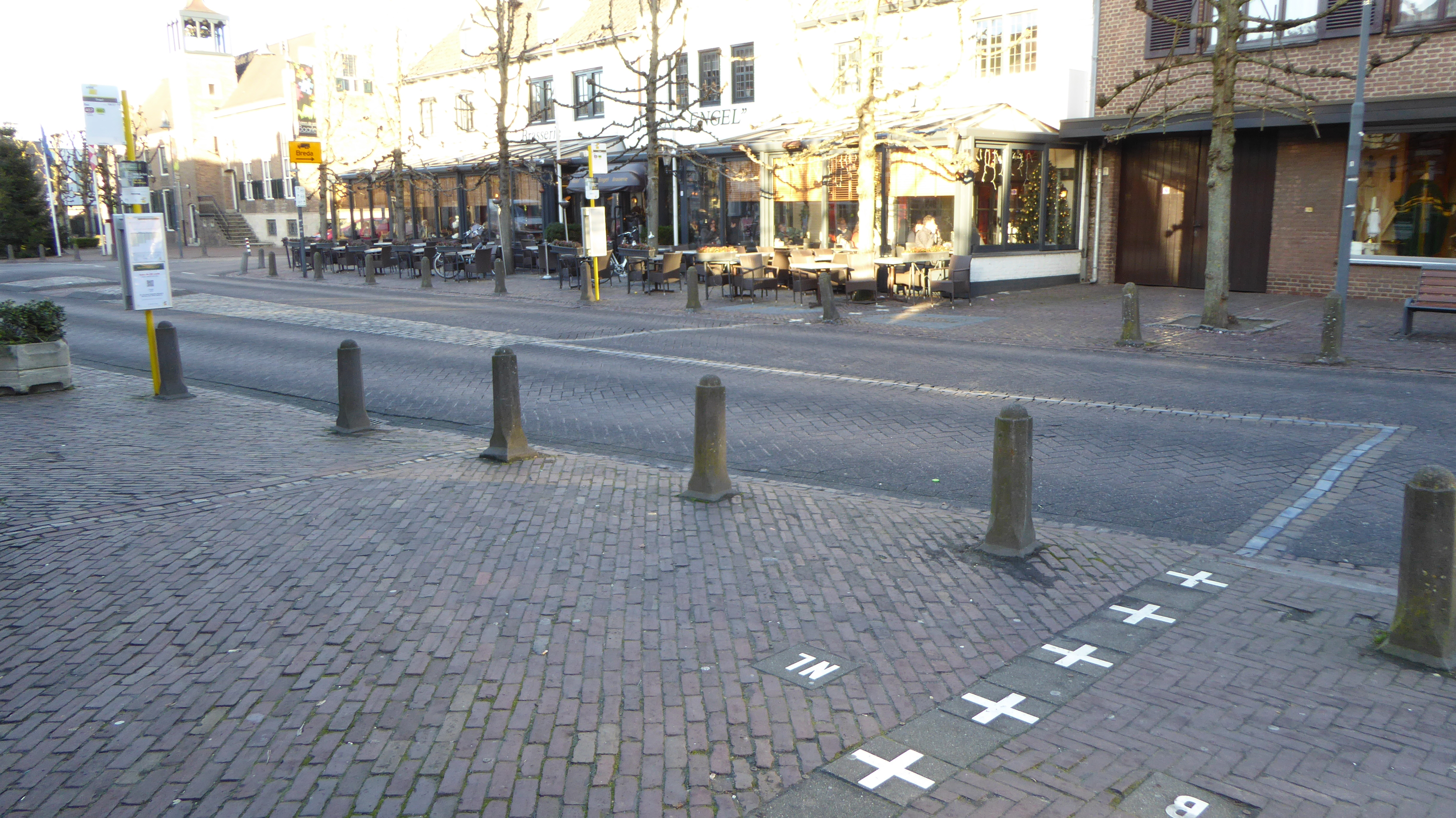 Border line between Baarle-Nassau and Baarle-Hertog